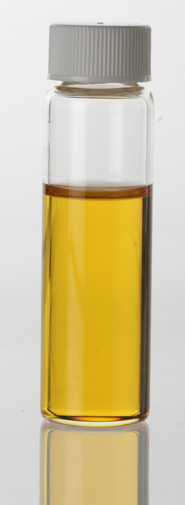 CinnamonBarkEssentialOil